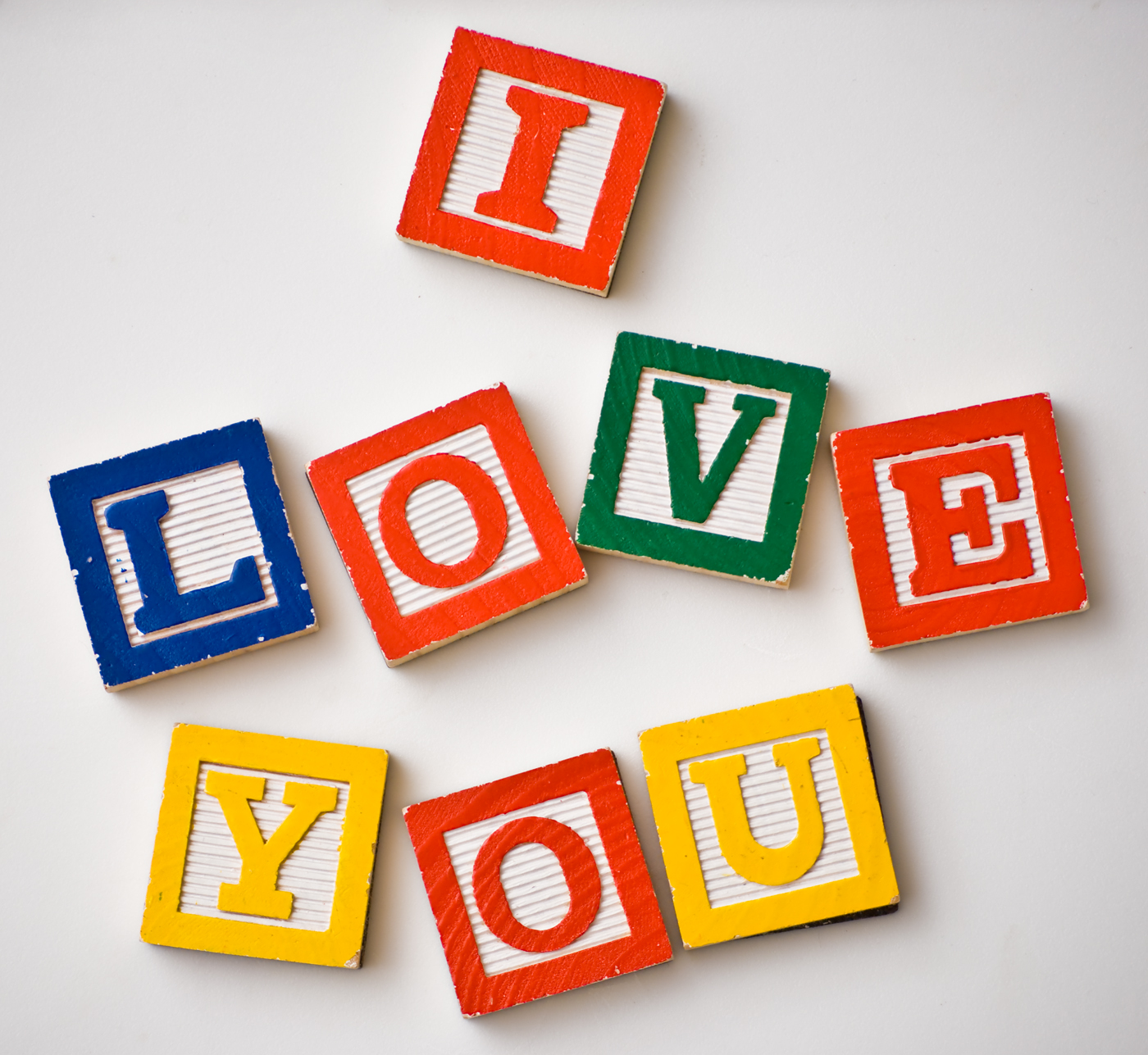 Strobist - Focal m200 about 6ft left of camera, bounced off ceiling